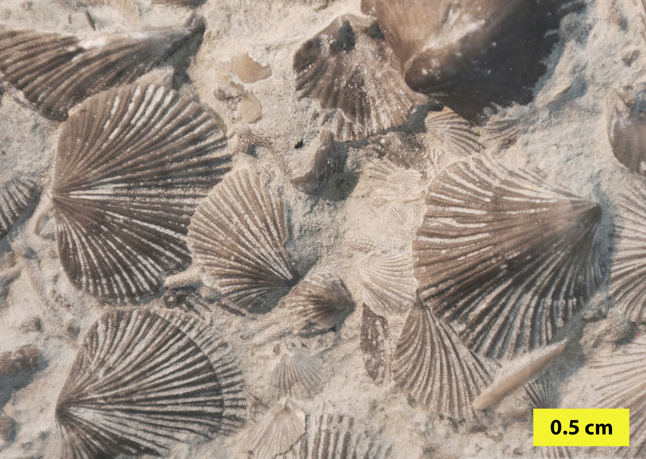 Cincinnetina meeki (Miller, 1875) from the Cincinnatian (Upper Ordovician) of southern Ohio.